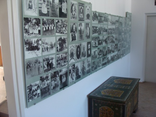 Exhibition of photographs by Wojciech Migacz in The Lach of Sącz Ethnic Group Museum